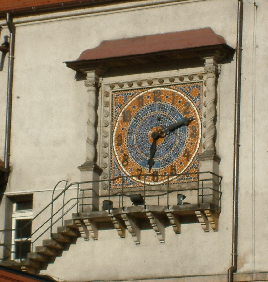 Clock on Monastry og Franciscans on Przemysł Hill in Poznań